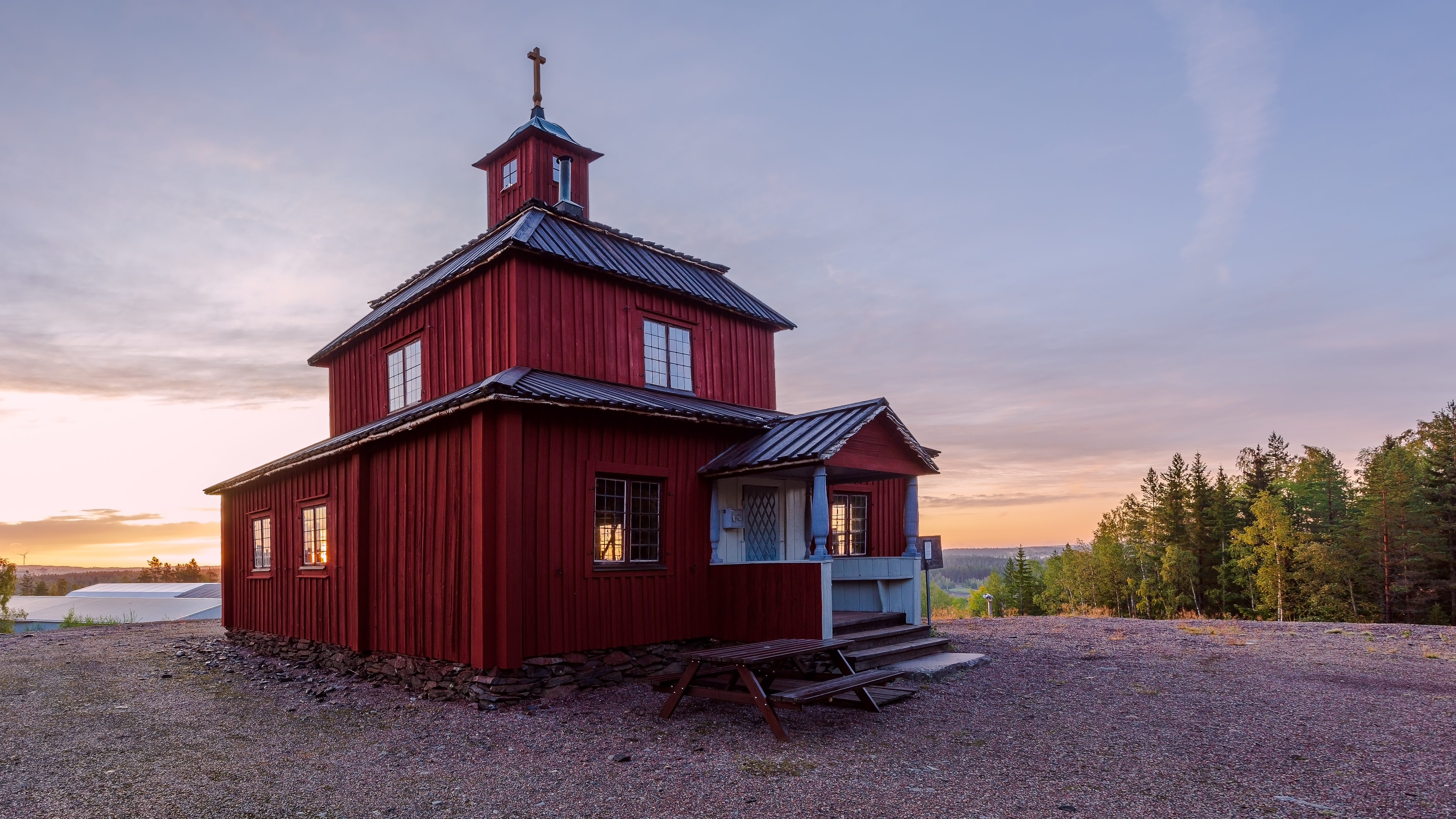 Chapel at Garpenberg mine, Hedemora Muicipality, Dalarna County, Sweden